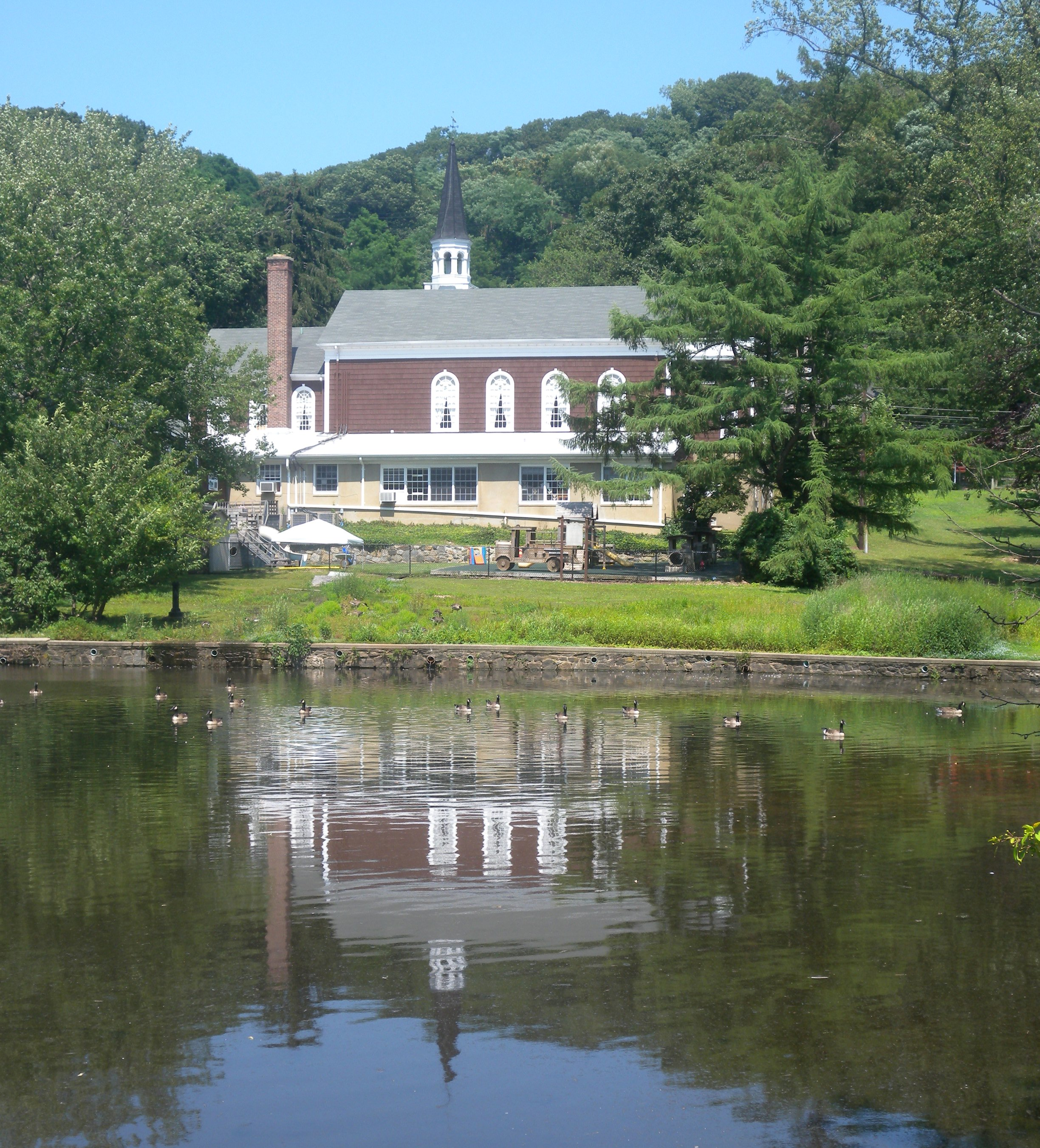 Looking east across pond at church on a sunny midday.